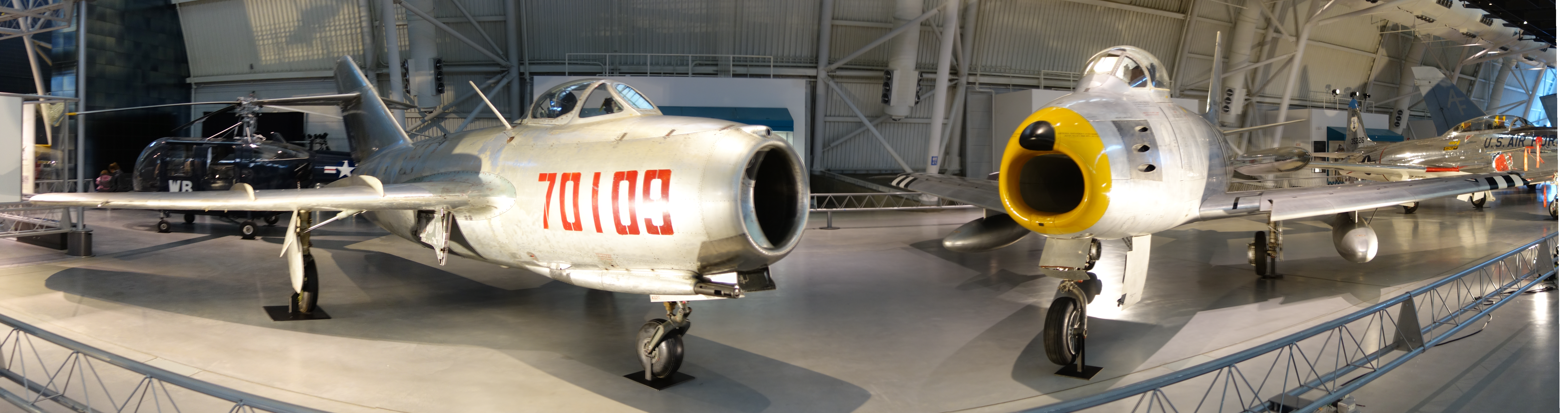 Korean War adversaries Mig-15 (left) and F-86 Sabre (right) on display at the Steven F. Udvar-Hazy Center, National Air and Space Museum. Panorama stitched from photos taken by a Sony RX100 II.